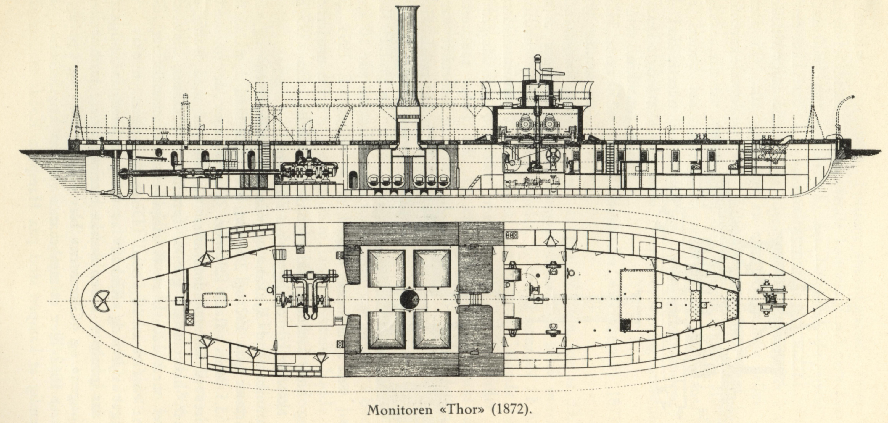 Drawing of the Norwegian monitor "Thor" from 1872.